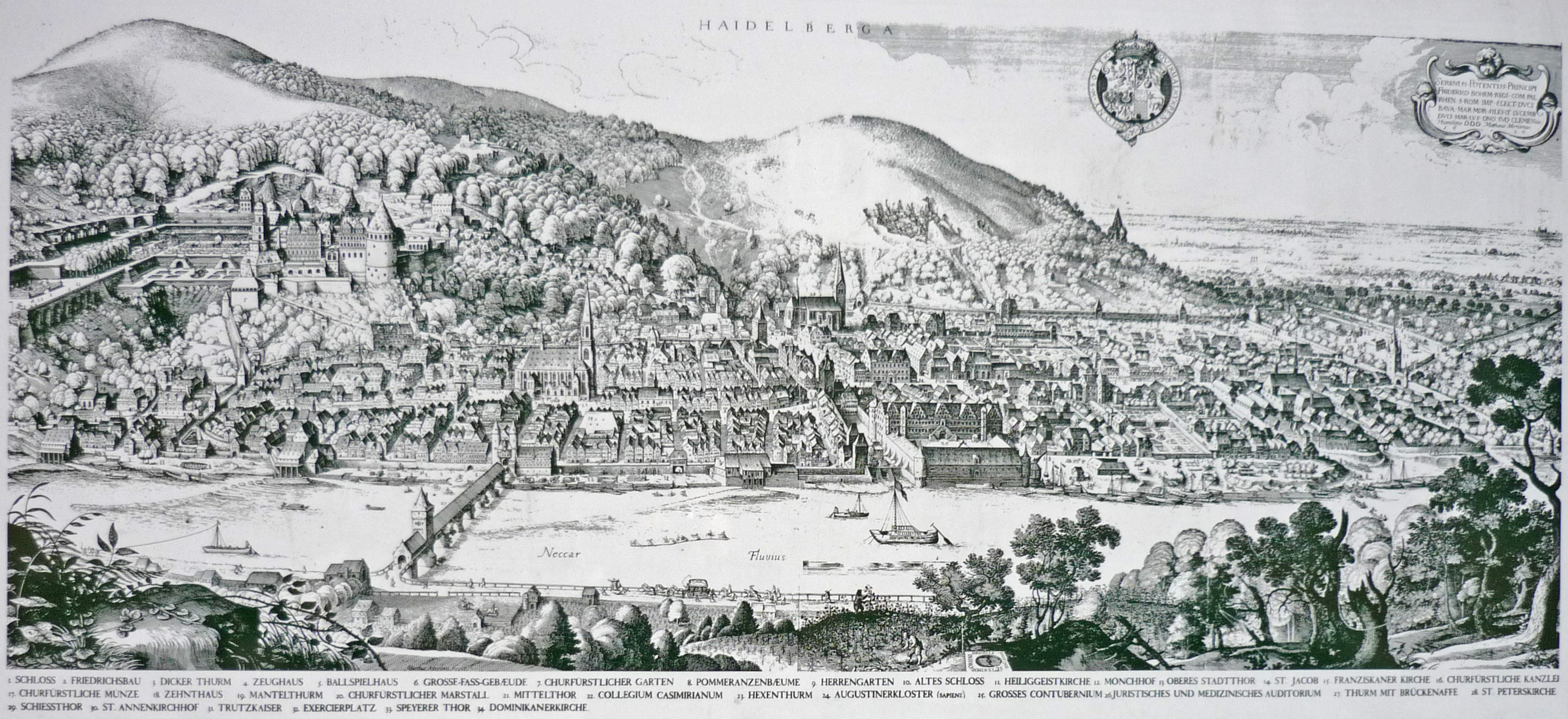 Picture of Heidelberg by Matthäus Merian in 1620.